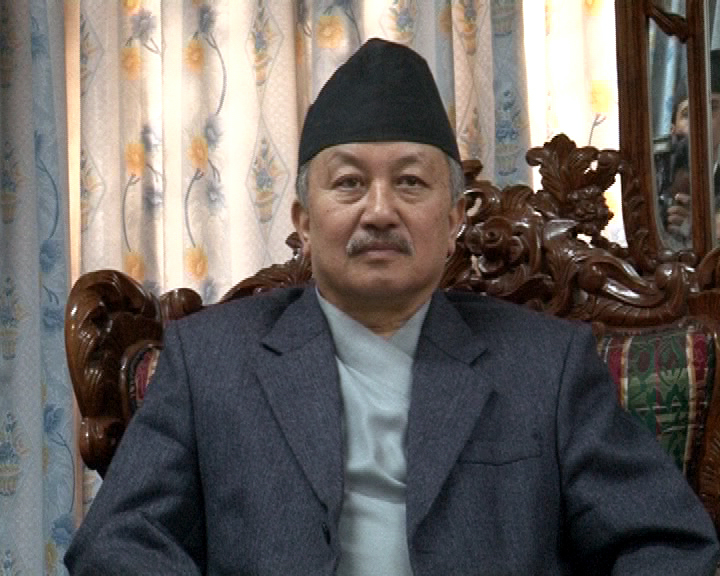 Nepali Leader